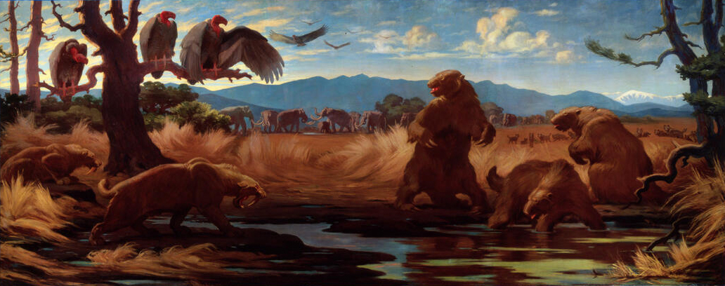 Rancho la Brea Tar Pool. Restoration by Charles. R. Knight for Amer. Mus. (N.Y.) mural decorations 9' by 12' in hall of the Age of Man. One sloth (Mylodon, now Paramylodon) trapped, two guarding against Sabre Tooth (Smilodon fatalis). Condors (unidentified further, likely Teratornis) waiting on McNabb's cypress. In the rear of pool which has yielded much elephant (Columbian mammoth) material. San Gabriel range with Mt. Lowe center and Mt. Wilson at right of erect sloth. Old Baldy at right.